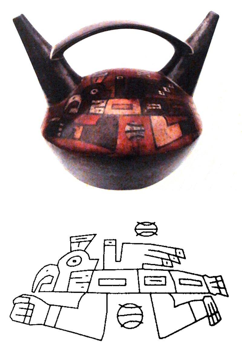 Wari (Huari) ceramic. The griffin Pachacamc has the head and wings of a bird and the paws of a feline.